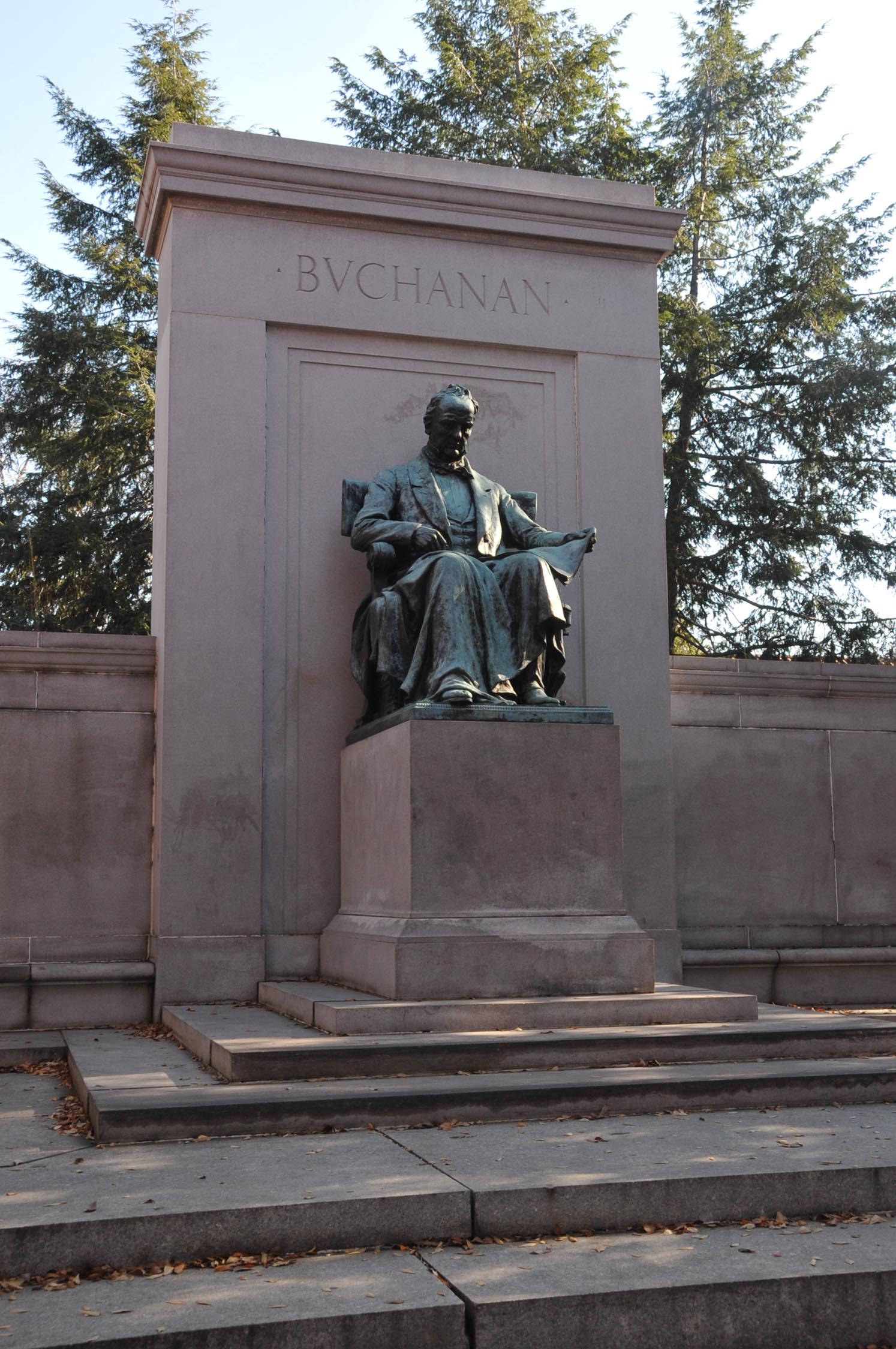 JAMES BUCHANAN MEMORIAL - 15TH PRESIDENT OF THE UNITED STATES